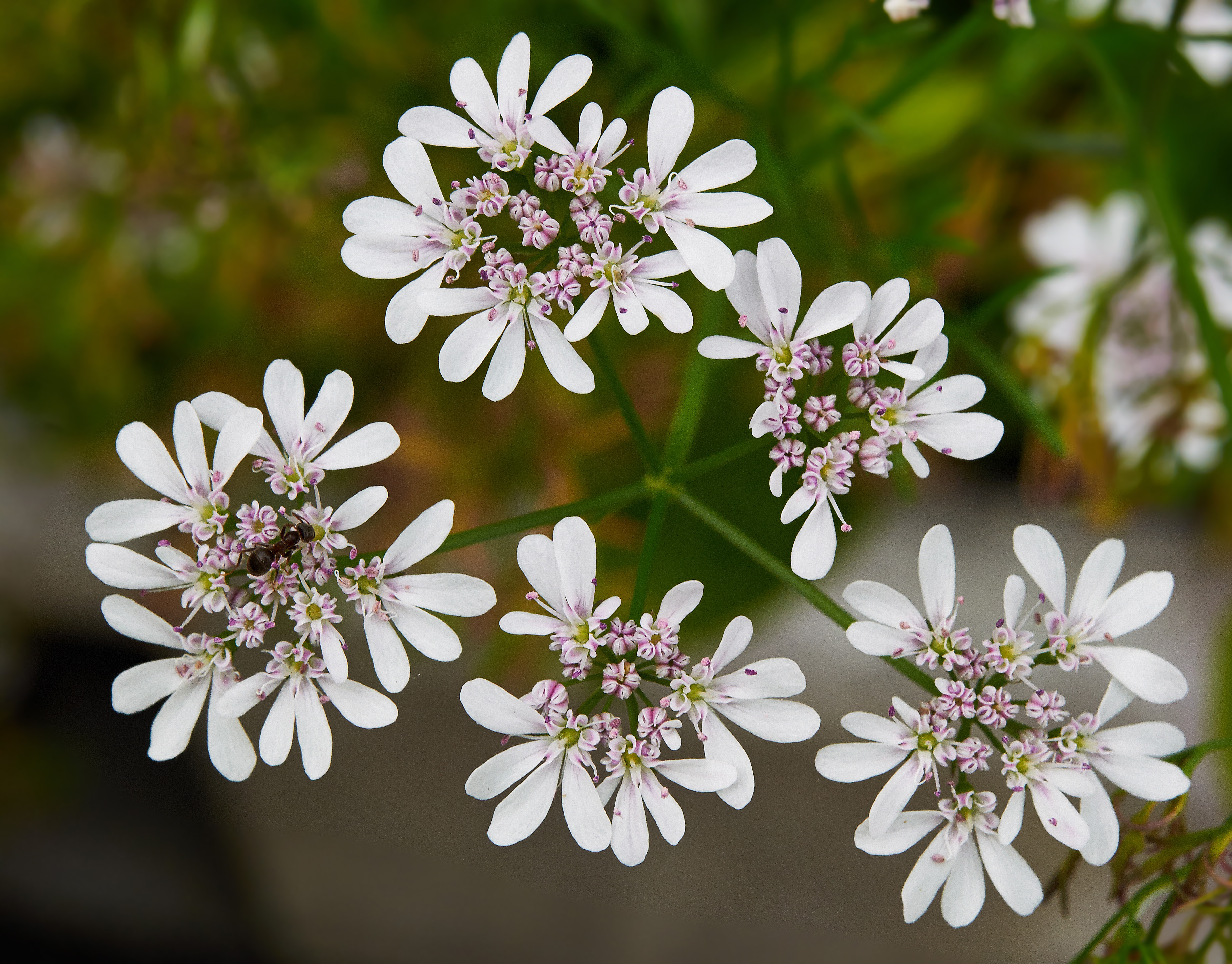 Flowers of Coriandrum sativum